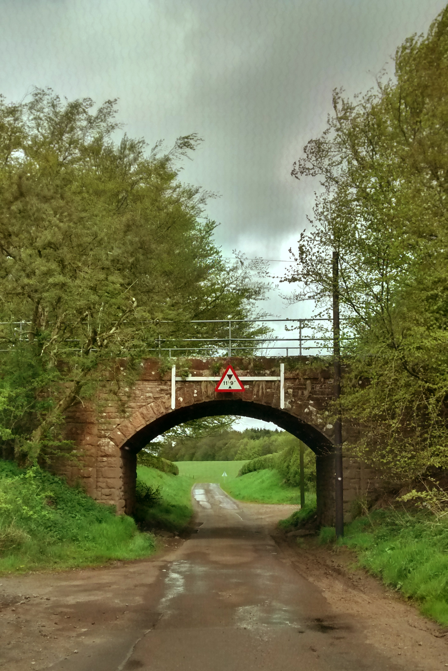 Old railway bridge outside Lockerbie. Underbridge where Dumfries, Lochmaben and Lockerbie Railway crossed minor road between Dryfesdalegate and Shillahill about a mile west of Lockerbie.